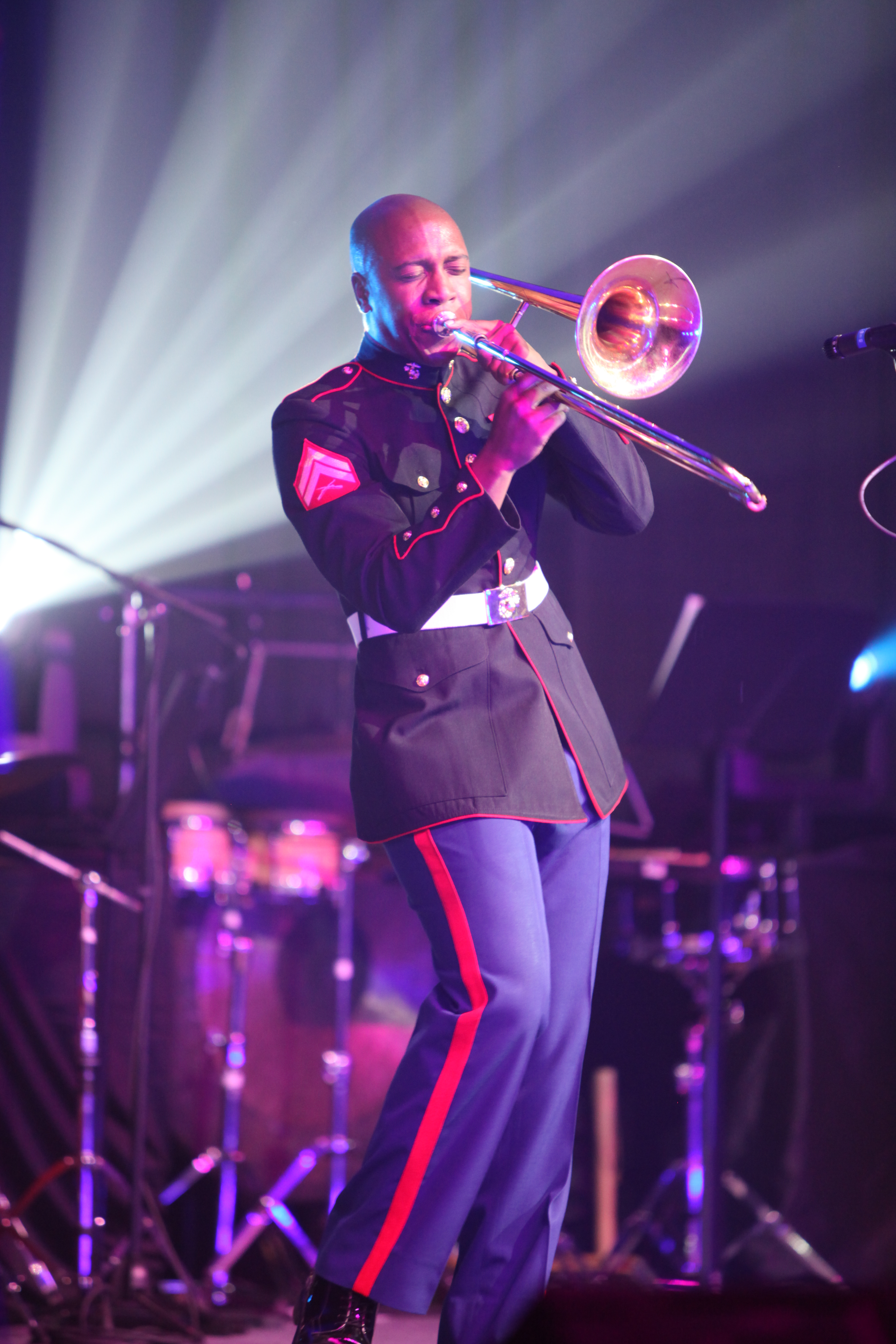 Cpl. Morgan Bounds, of Marine Band New Orleans, serenades the audience with a smokey, trombone rendition of the holiday classic, The Christmas Song. The band gave a holiday performance at the Alario Center, Dec.10, to help build support for the Marine Corps Reserve Toys for Tots program.